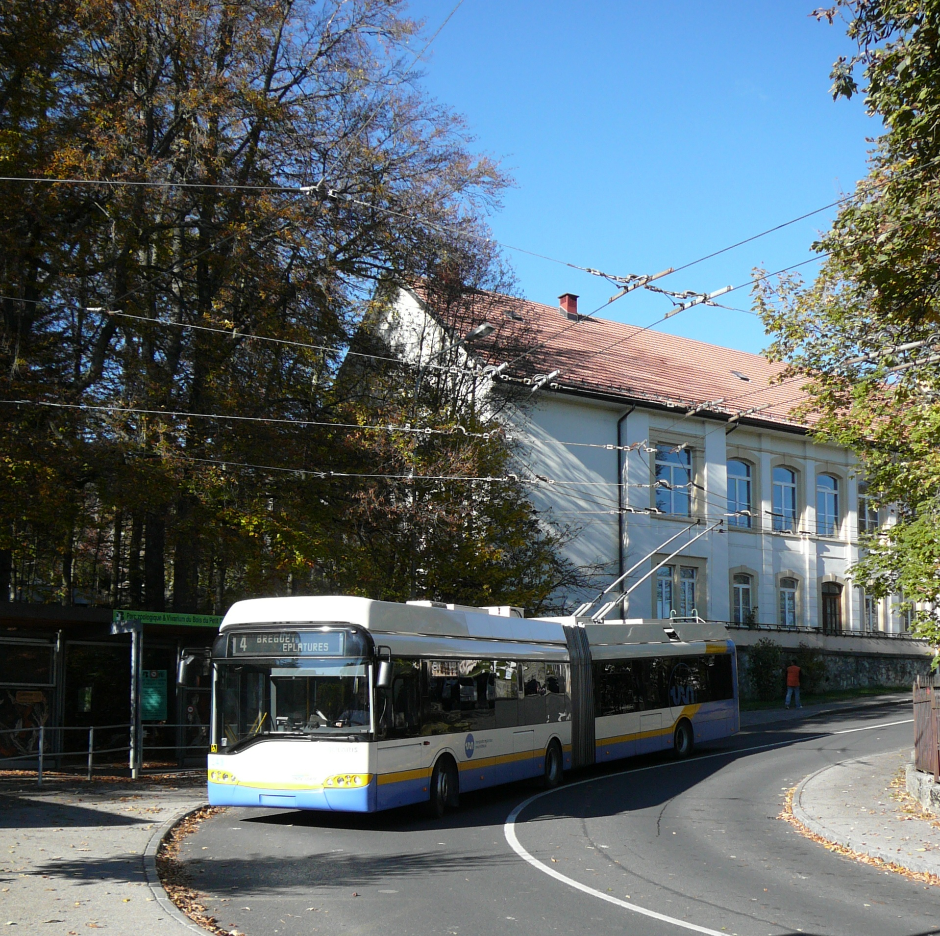 Solaris Trollino 18AC trolleybus (#143, built 2005) in La Chaux-de-Fonds, Switzerland. Transports Régionaux Neuchâtelois (TRN) operator.